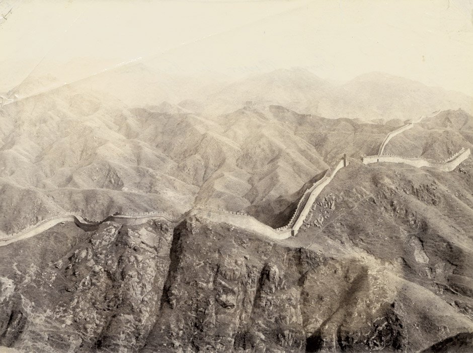 Chinese Wall near Nankang, 19.5 x 26.5 cm